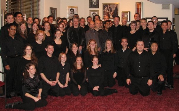 University of Utah Singers with the Kronos Quartet, Kingsbury Hall